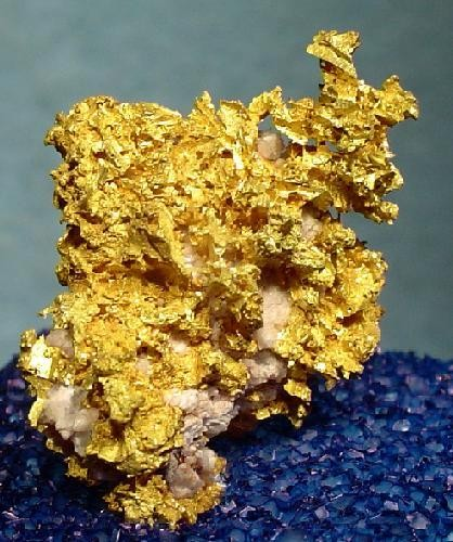 Gold, Quartz Locality: Yavapai County, Arizona, USA (Locality at ) Size: 2.0 x 1.8 x 1.7 cm. A superb Arizona gold thumbnail. Rich, golden-yellow, hackly gold aesthetically covers the quartz matrix on this fine, old-timer from an unknown mine in Yavapai County.